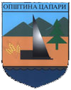 Coat of arms of the former Capari Municipality, Macedonia.